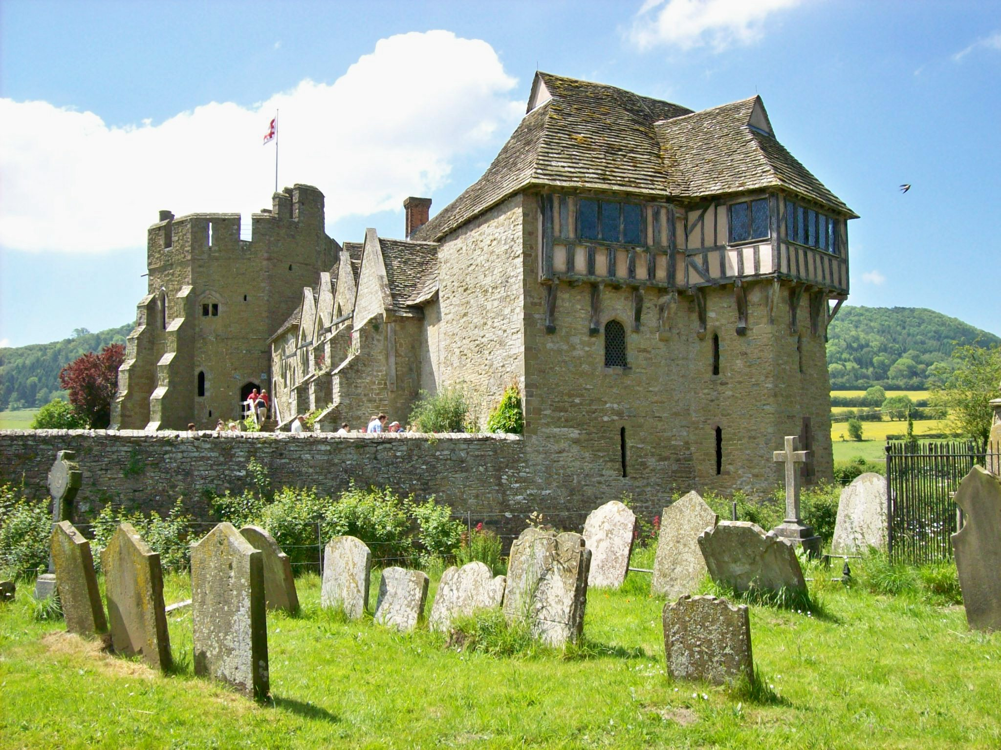 Stokesay Castle from churchyard